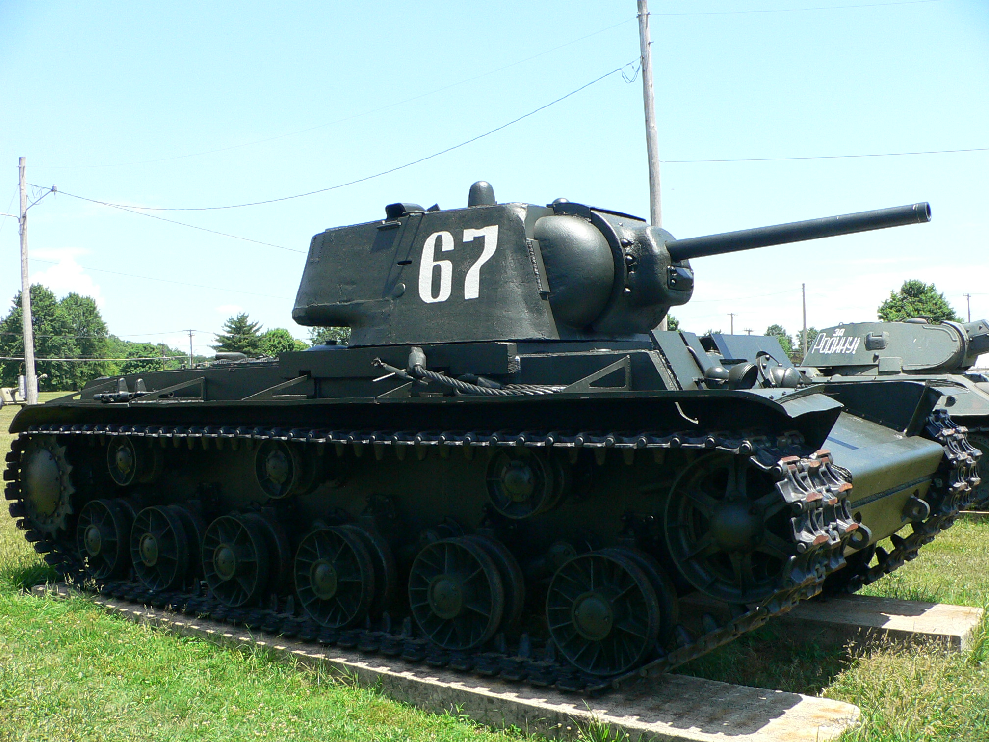 Picture taken by myself, Mark Pellegrini, at the United States Army Ordnance Museum (Aberdeen Proving Ground, MD) on June 12, 2007.